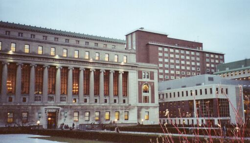 Columbia University, Main Library (left) and Student Center (right)